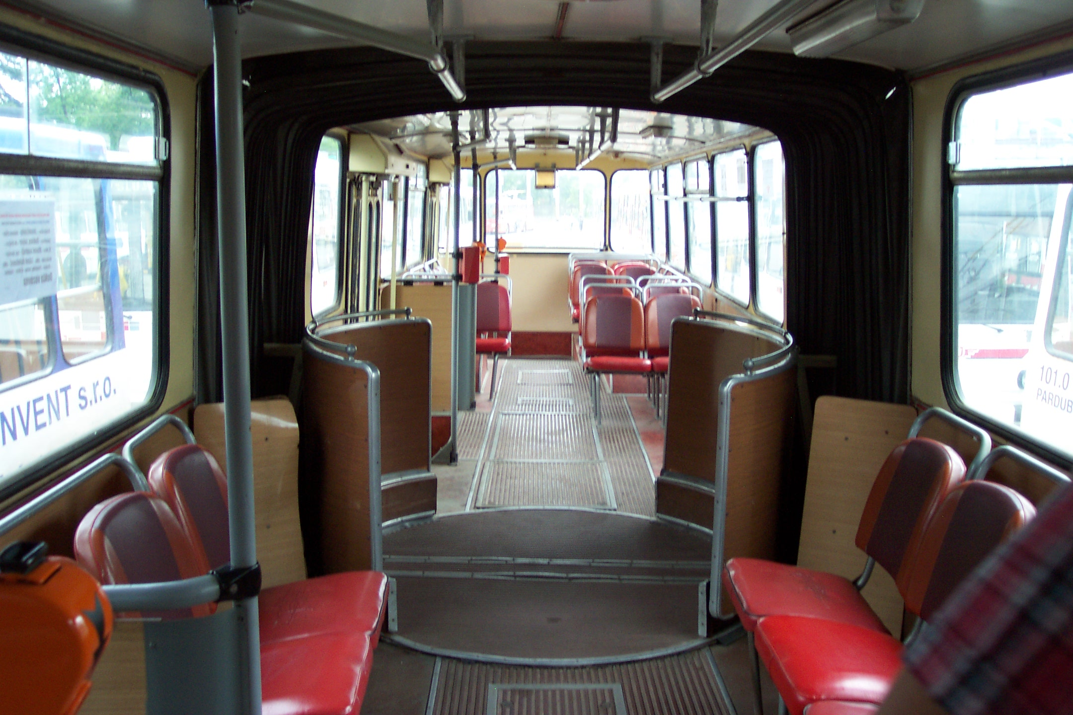 Czech historic trolleybus Škoda Sanos at the 55 years of trolleybus transport in Pardubice.